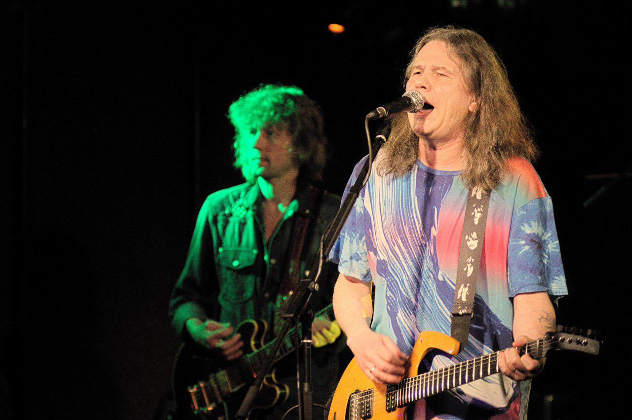 Chizh & Co in Kaliningrad 2017-03-18